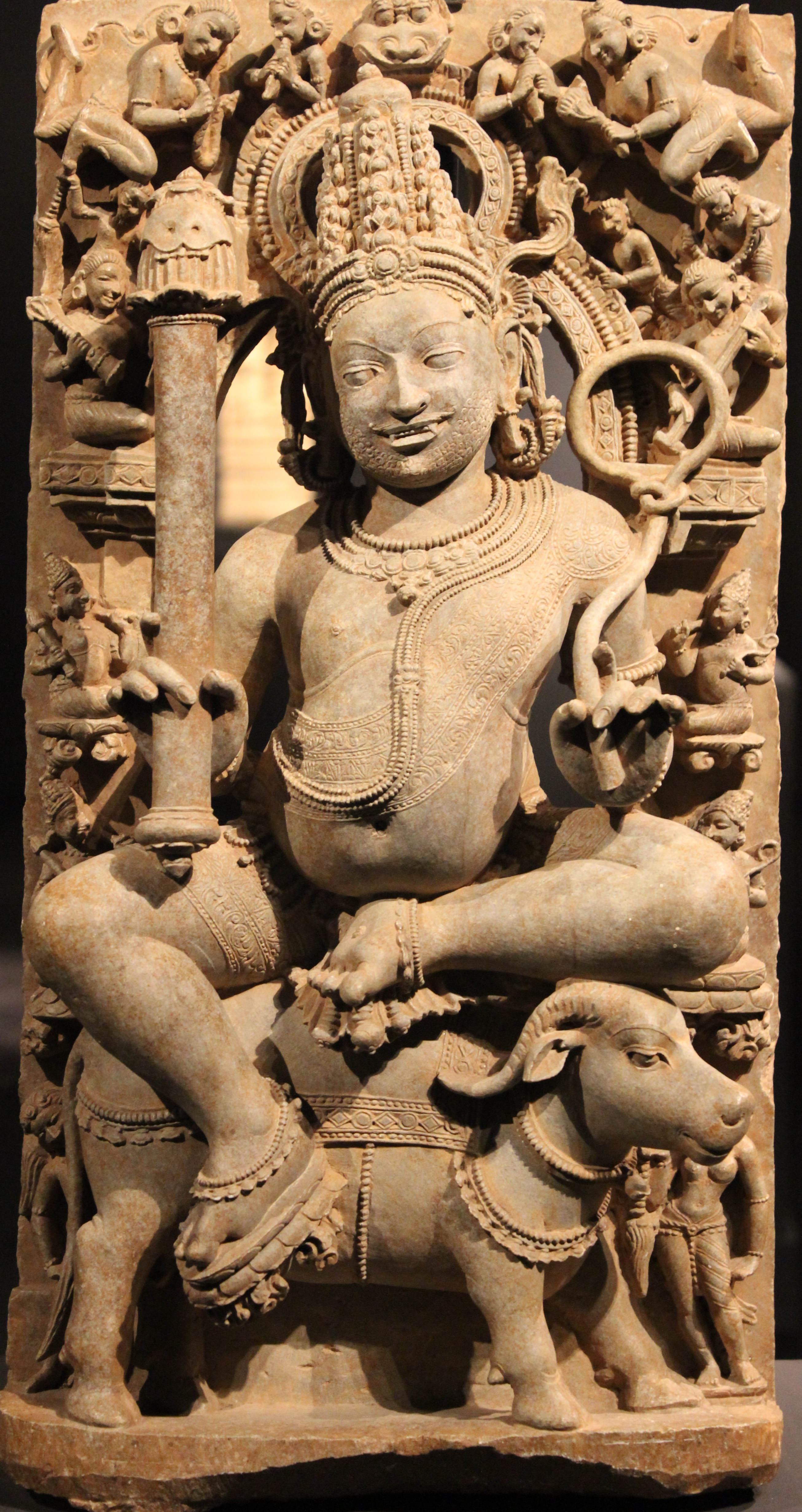 The Gods of the 8 directions North East - Ishana East - Indra South East - Agni South - Yama South West - Nairrti West - Varuna North West - Vayu North - Kubera